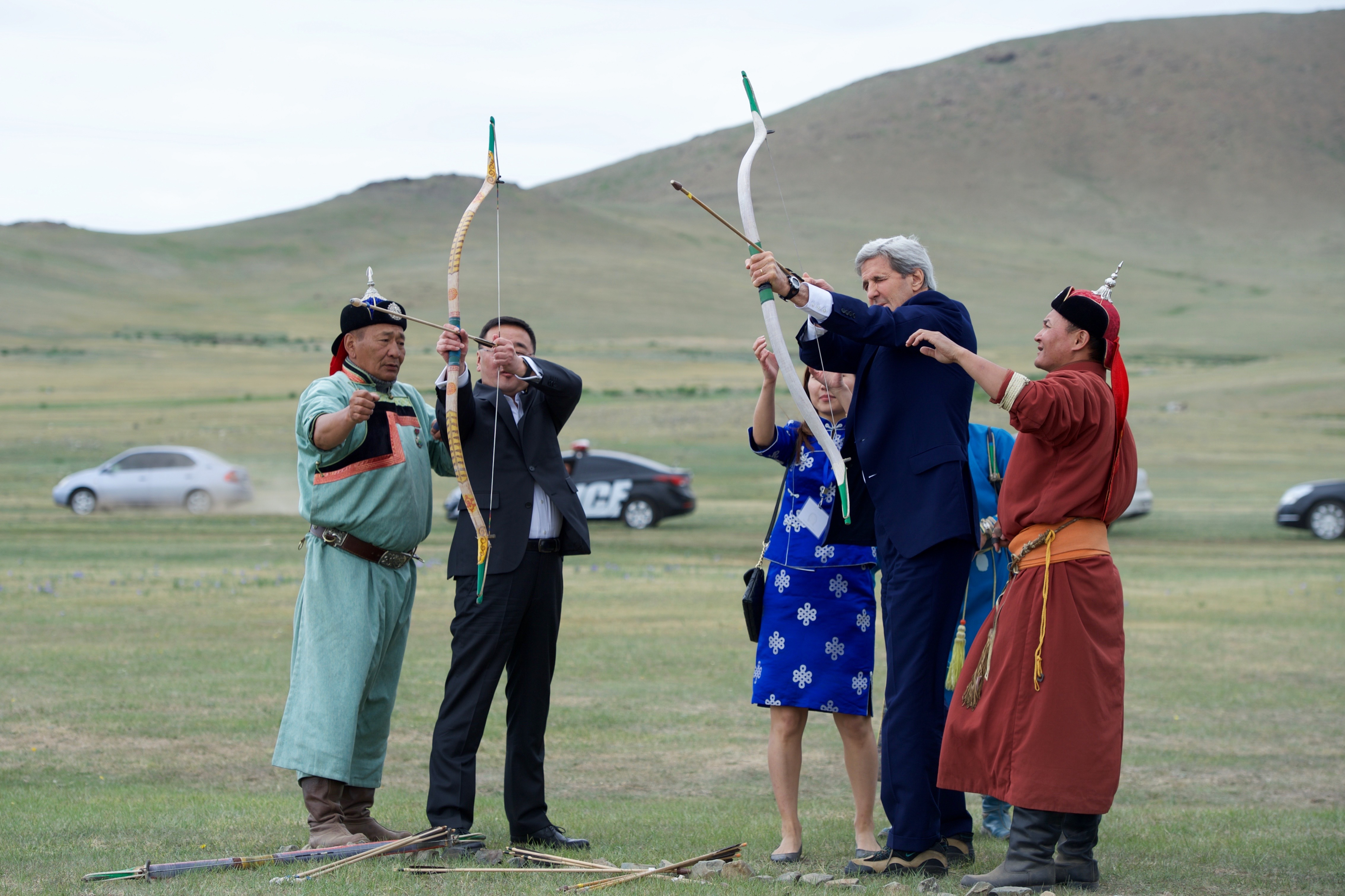 Archers in traditional outfits guide U.S. Secretary of State John Kerry as he prepares to shoot an arrow while attending a “mini-nadaam” – a display of music, dance, archery, wrestling, and horse-riding – in a field outside Ulaanbaatar, Mongolia, following bilateral meetings on June 5, 2016, with Mongolian President Tsakhia Elbegdorj and Foreign Minister Lundeg Purevsuren. [State Department photo/ Public Domain]